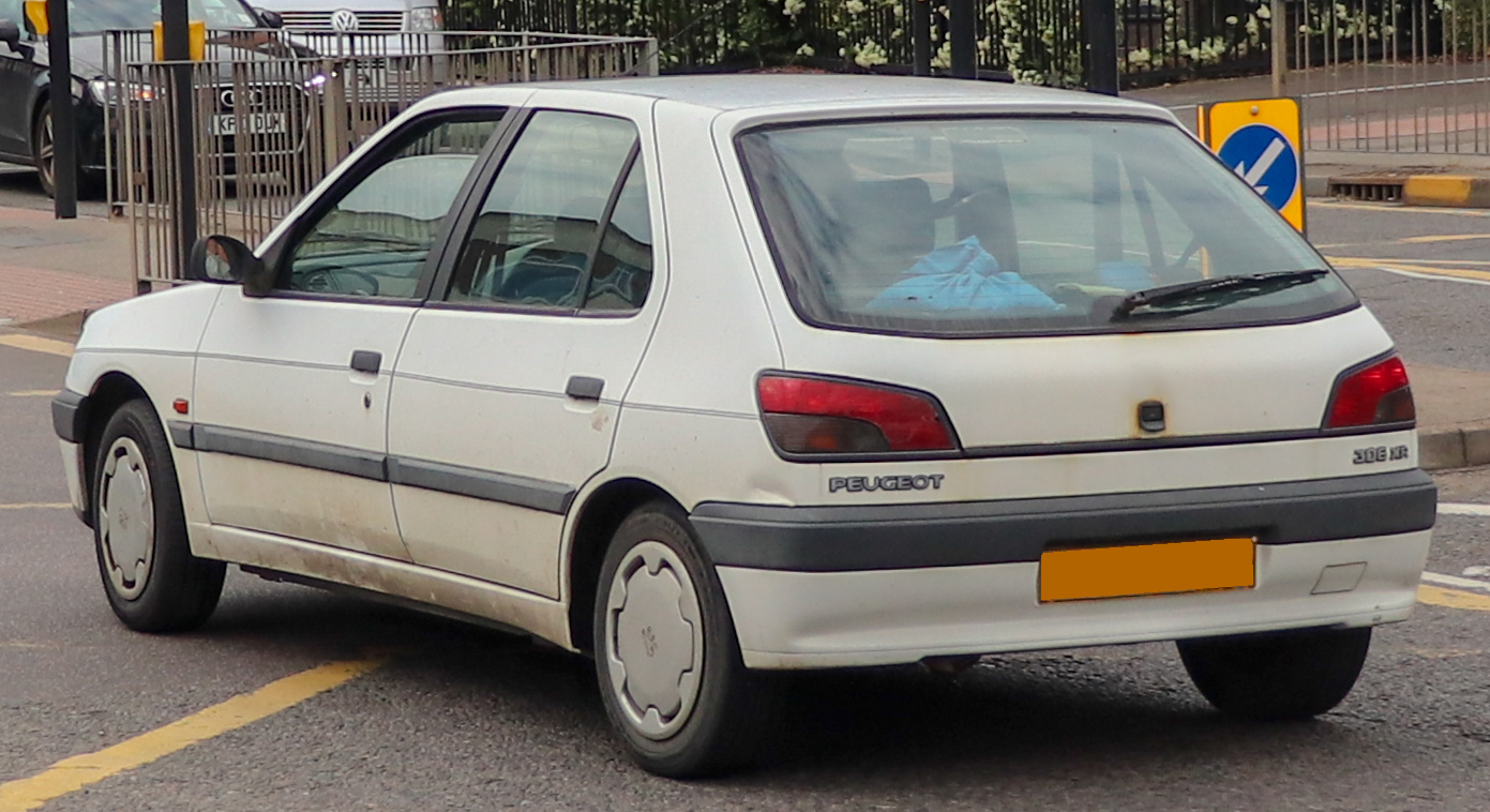 1996 Peugeot 306 XR 1.4 Rear Taken in Stratford-upon-Avon